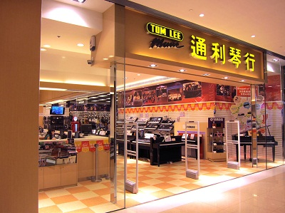 Tom Lee Music branch at Olympian City